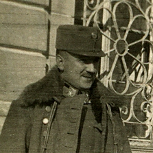 Karl Tarbuk von Sensenhorst als K.u.K.Frontoffizier im ersten Weltkrieg 1916 in Goerz/Gorizia